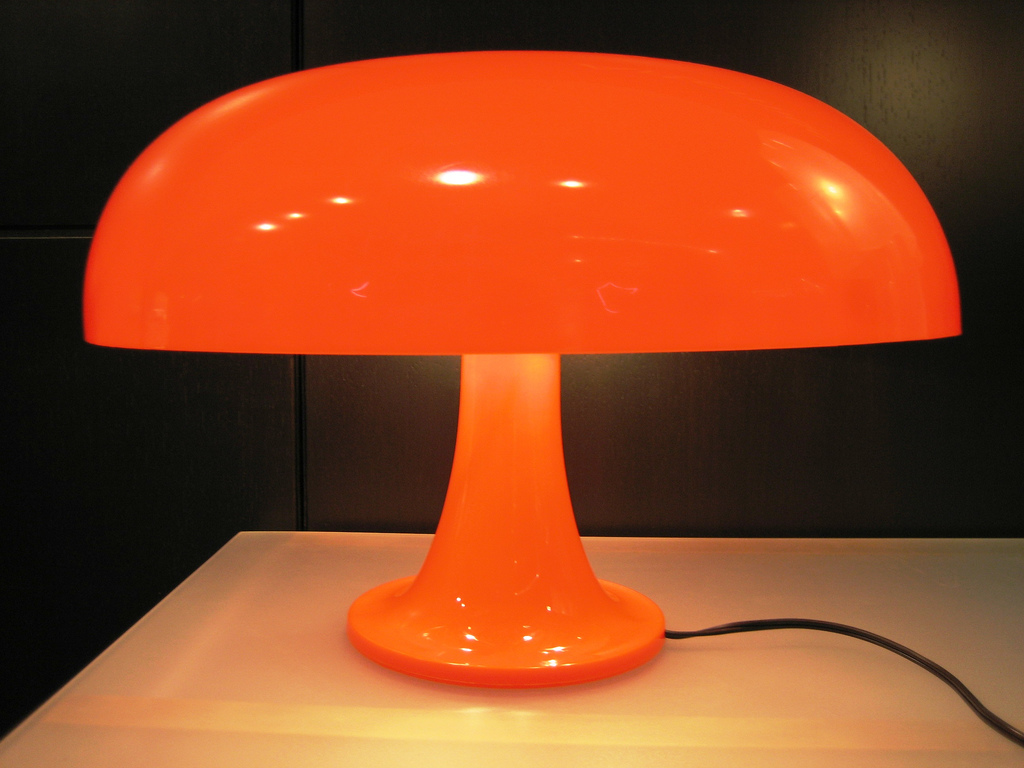 Nesso Lamp by Artemide created by Giancarlo Mattioli in 1965.